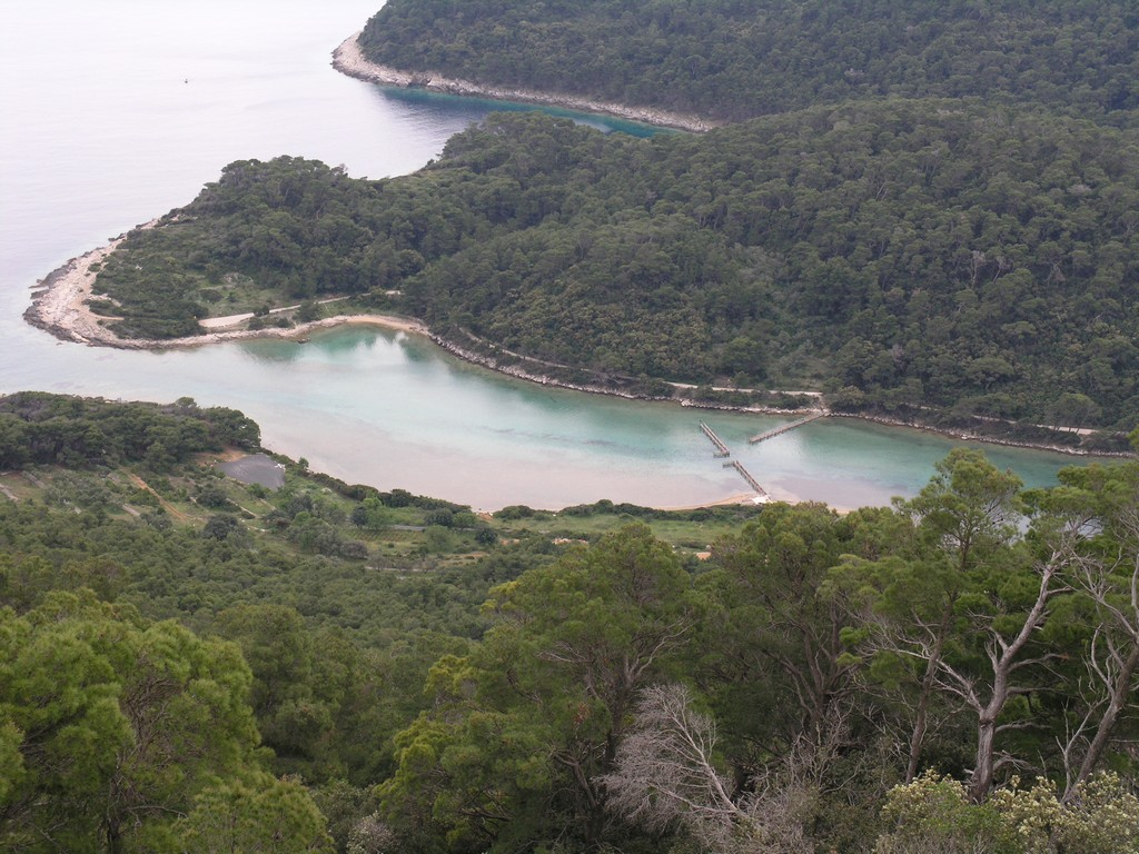 Soline channel, Mljet, Croatia